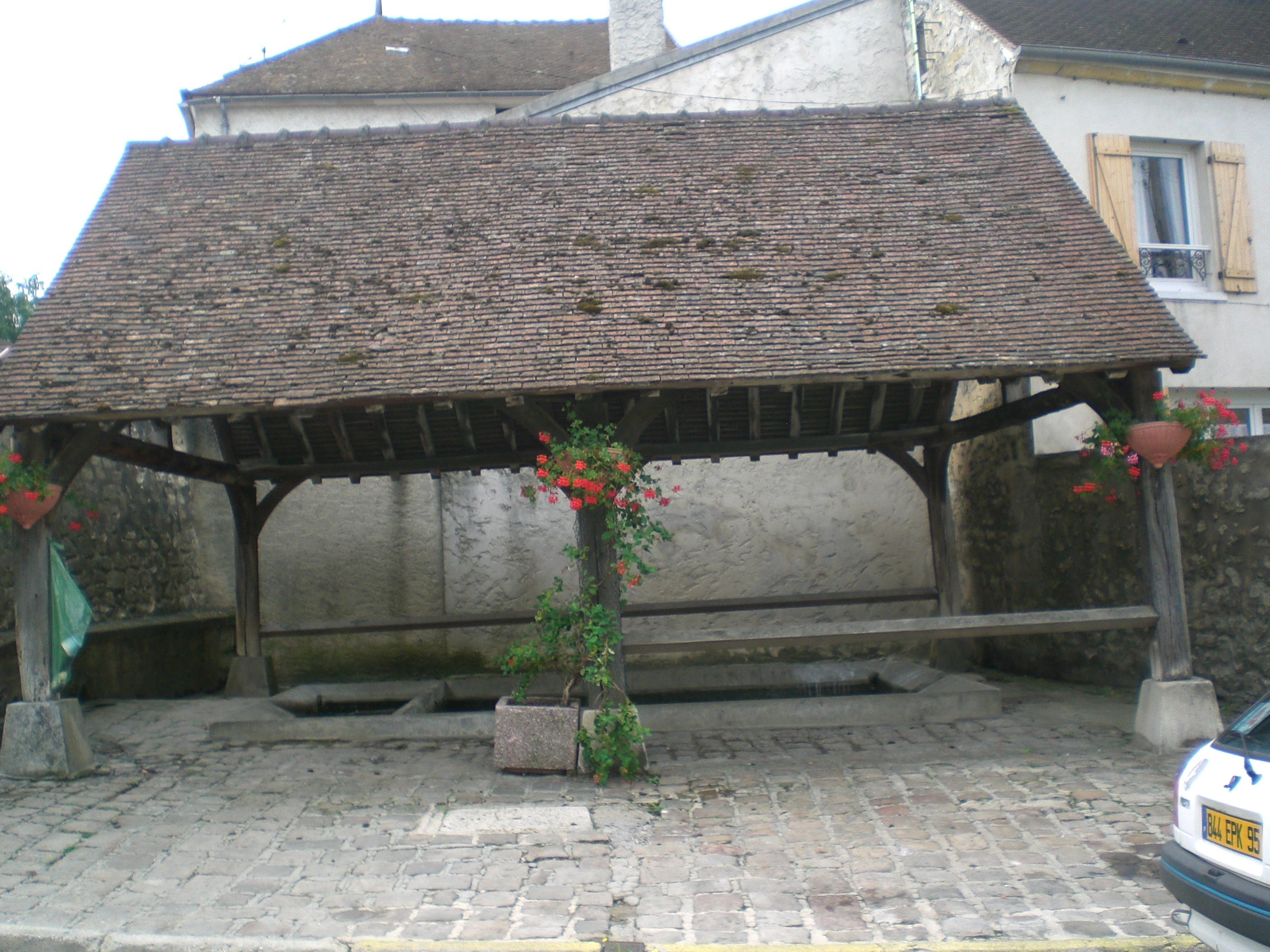 'Montcel' laundry of Viarmes